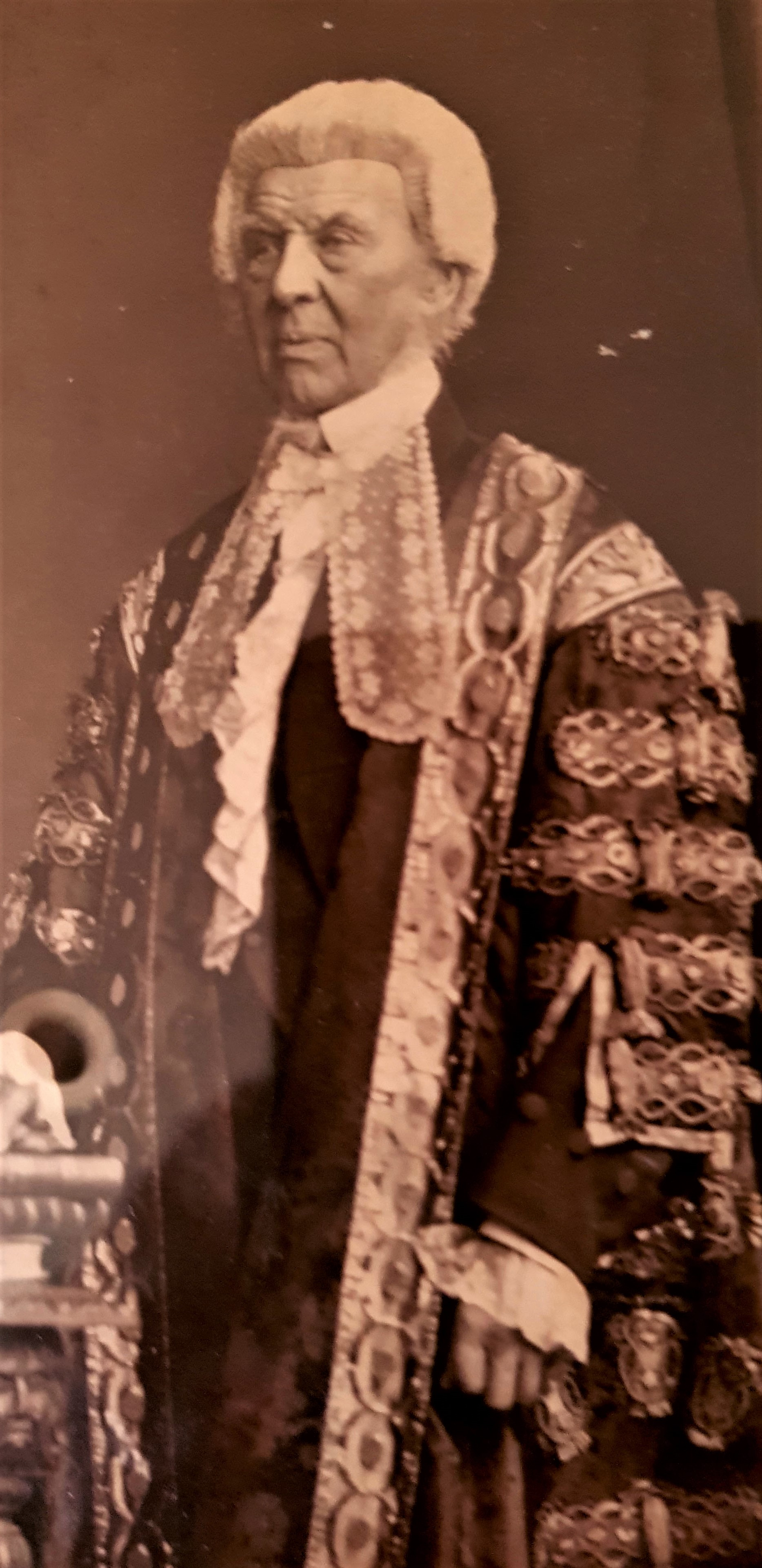 Abraham Brewster in judicial robes from Dublin University Magazine 1874